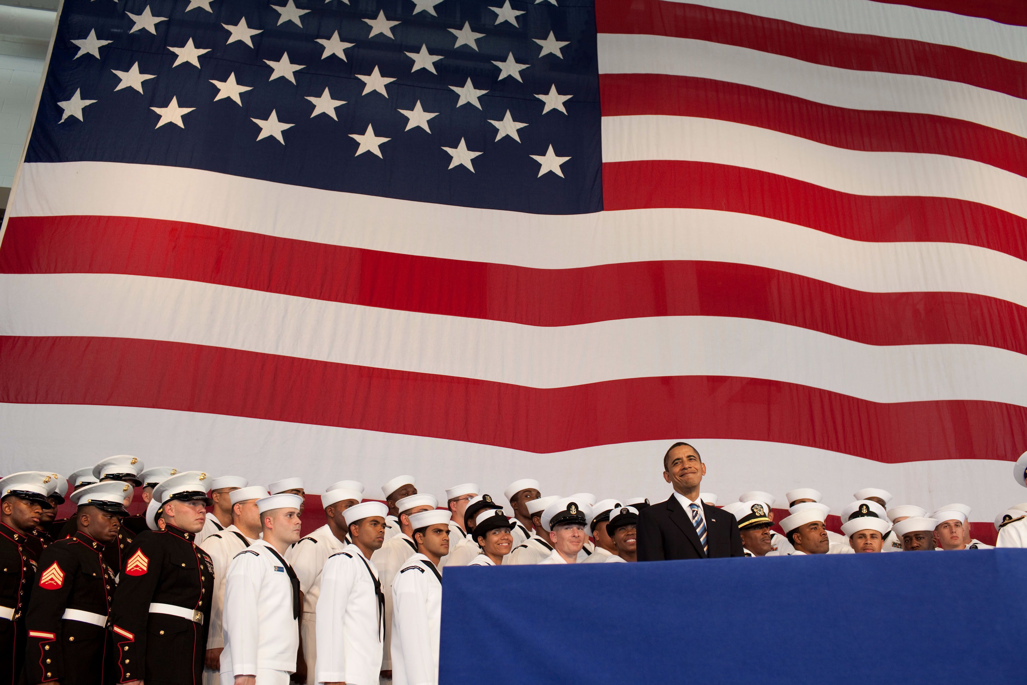 President Barack Obama prepares to speak to servicemen and women at Naval Air Station Jacksonville, in Jacksonville, Fla. October 26, 2009.